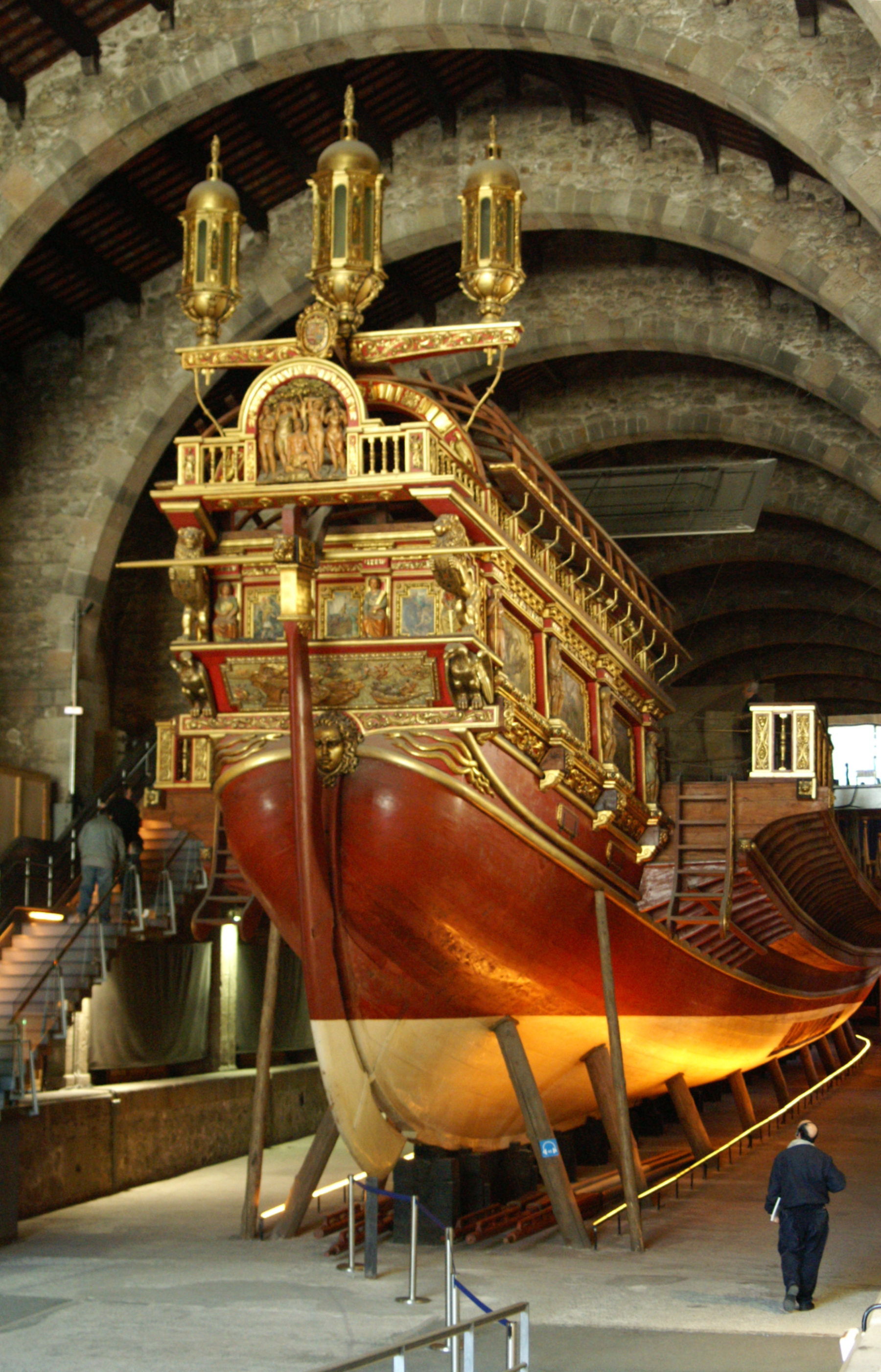 The Real, a historical galley replica in the Maritime Museum, Barcelona, build according to the study and plans of José María Martinez-Hidalgo y Terán.